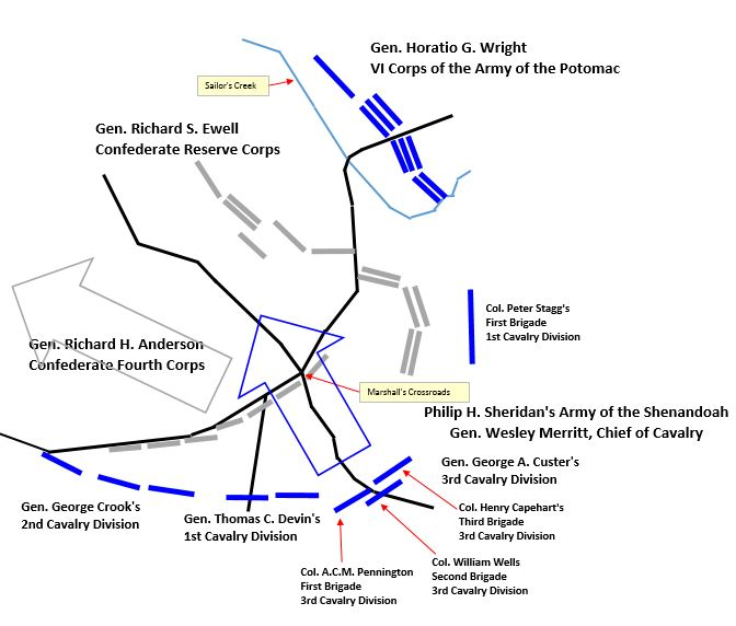 This is a drawing of the Sailor's Creek (spelled several ways) battlefield from the American Civil War. The battle took place on April 6, 1865. The focus here is on Custer's 3rd Cavalry Division.